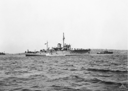 Australian War Memorial image 107177. HMAS Bundaberg in Sydney Harbour during 1942.